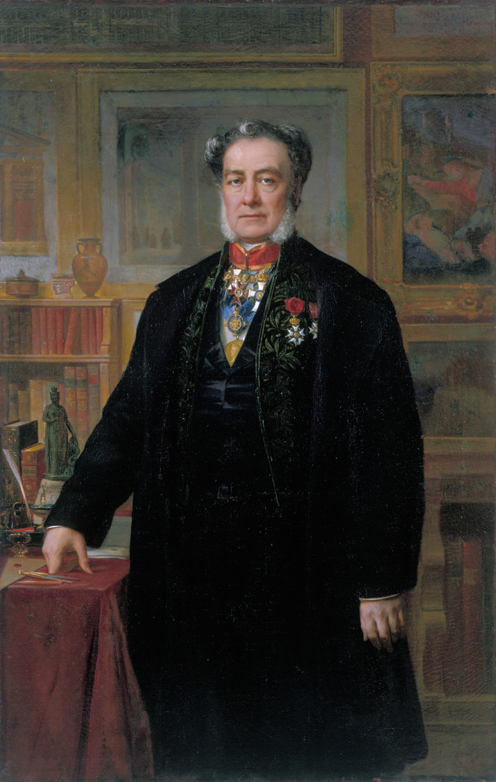 Architect Jacob Ignaz Hittorf (1792-1867) oil on canvas 167 x 106,5 cm 1869?